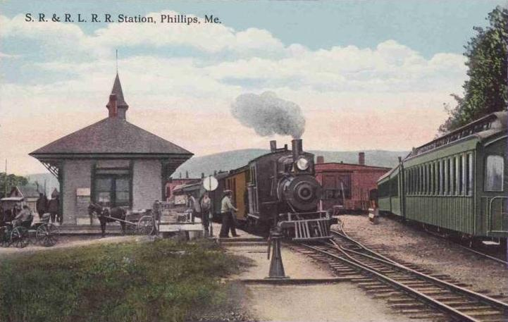 Sandy River and Rangeley Lakes Railroad Station, Phillips, Maine